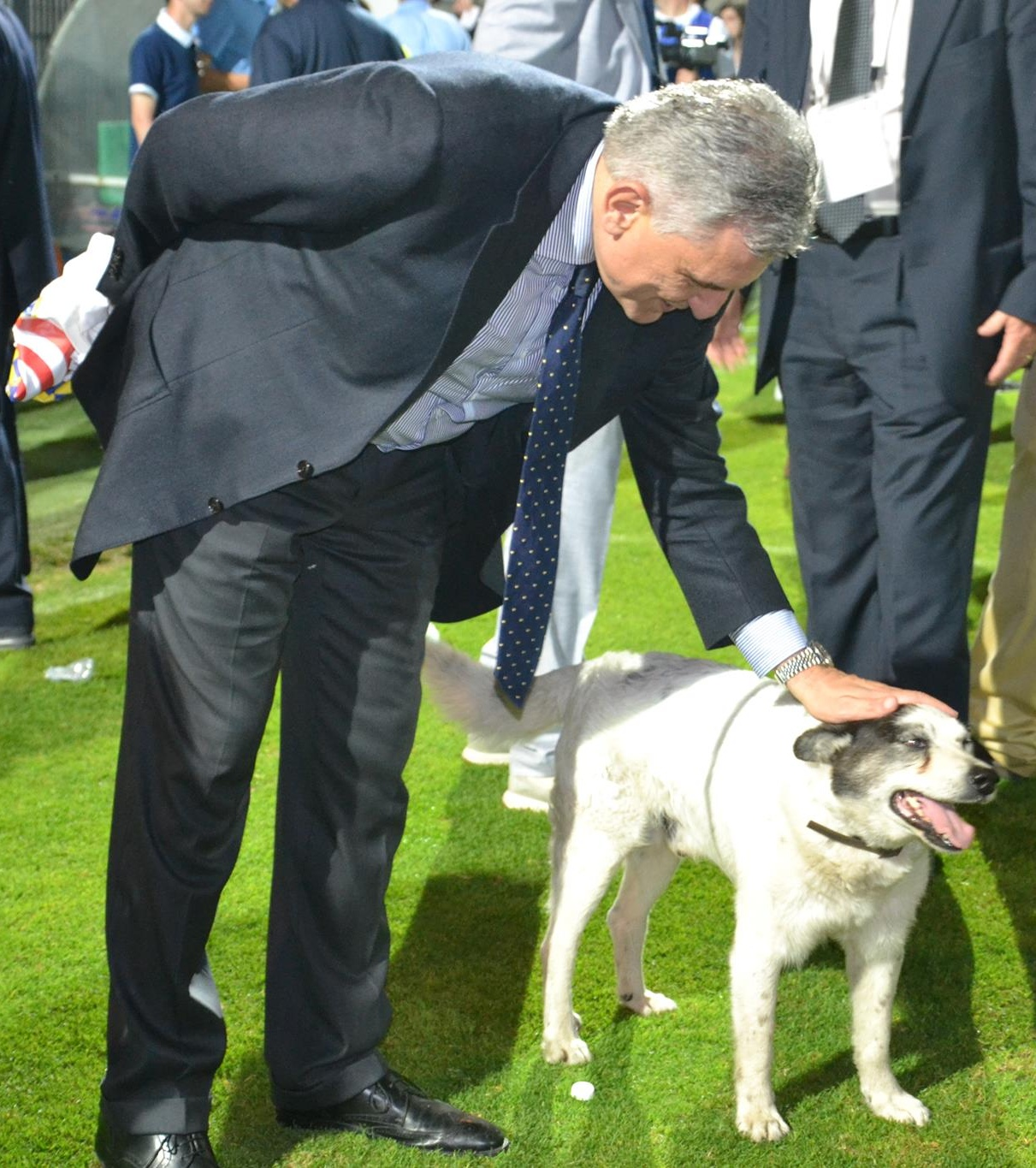 Matusa Stadium: President Maurizio Stirpe with the Frosinone's mascot Chicco